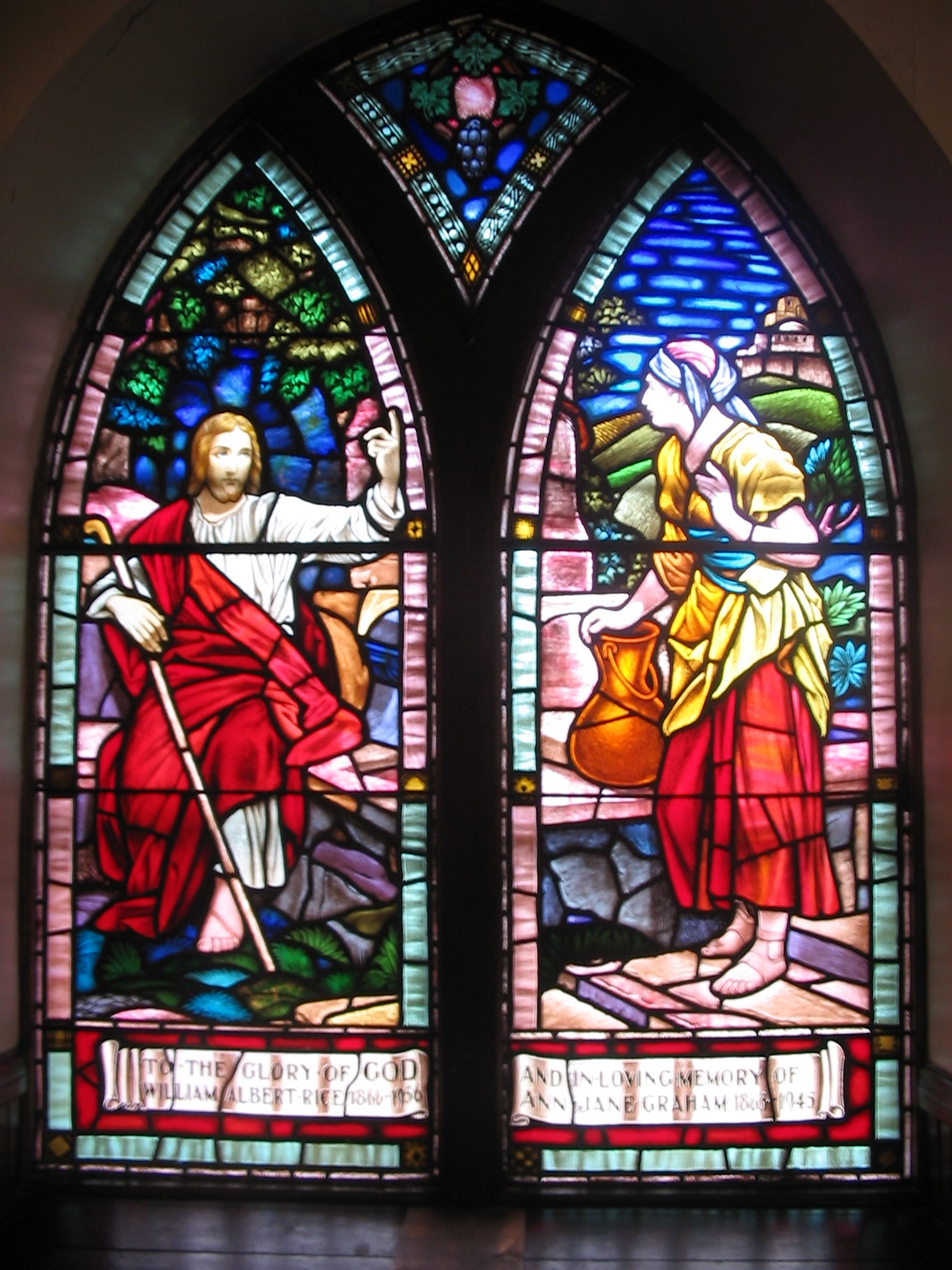 A stained glass window at St. Stephen's Buckingham, PQ